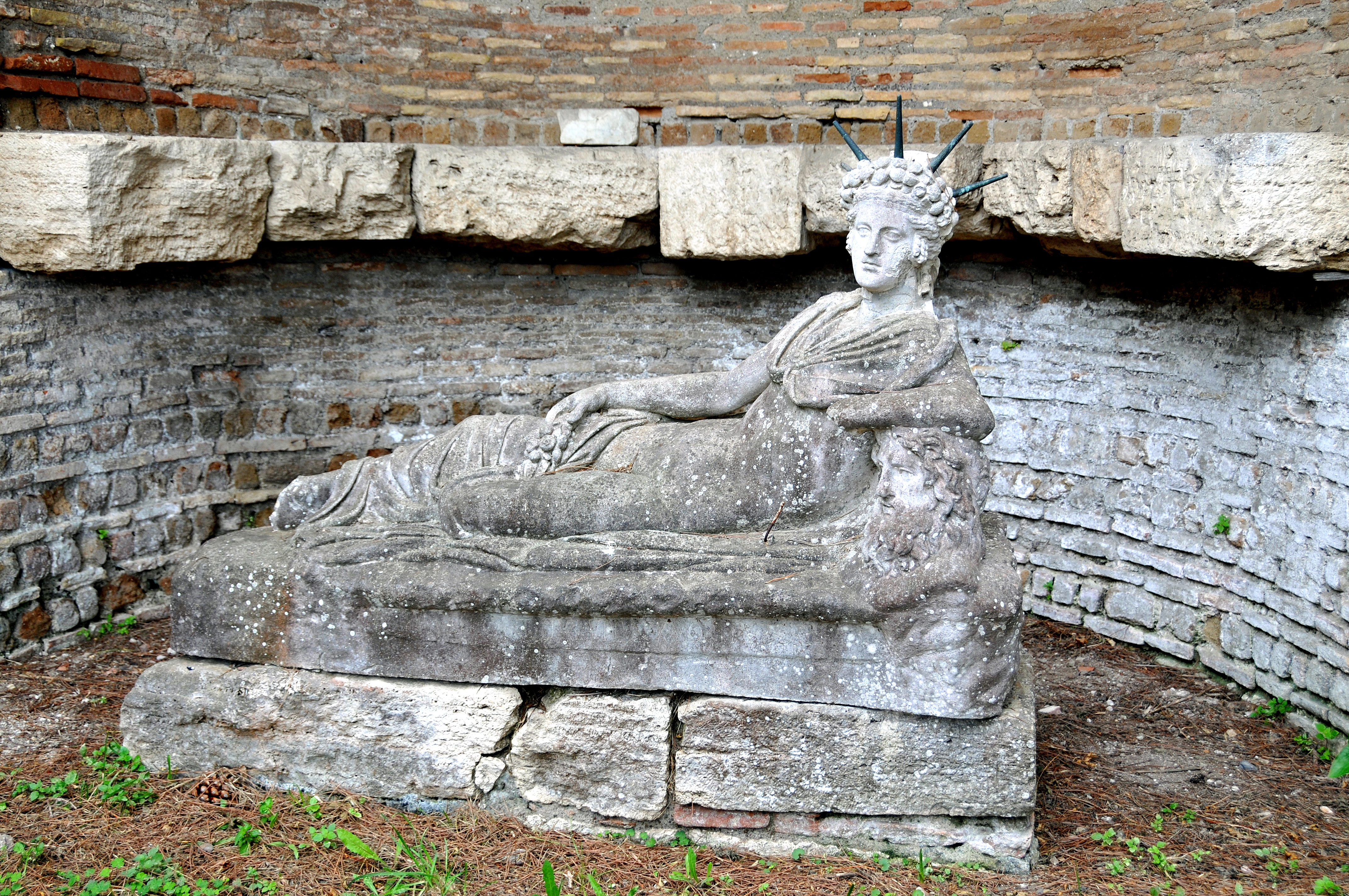 Statue of a reclining Attis. The Shrine of Attis is situated to the east of the Campus of the Magna Mater in Ostia.In the apse is a plaster cast (the original is in the Vatican Museums) of a statue of a reclining Attis, after the emasculation. In his left hand is a shepherd's crook, in his right hand a pomegranate. His head is crowned with bronze rays of the sun and on his Phrygian cap is a crescent moon. This suggests astrological aspects: Attis was regarded as a solar deity and identified with the moon-god Men. He is leaning on a bust, probably the personification of the river Gallos, where he had died. His posture is reminiscent of river gods (the river Gallos), but the statue also brings to mind sarcophagi, with a depiction of the deceased on the lid. The statue is a dedication by C. Cartilius Euplus